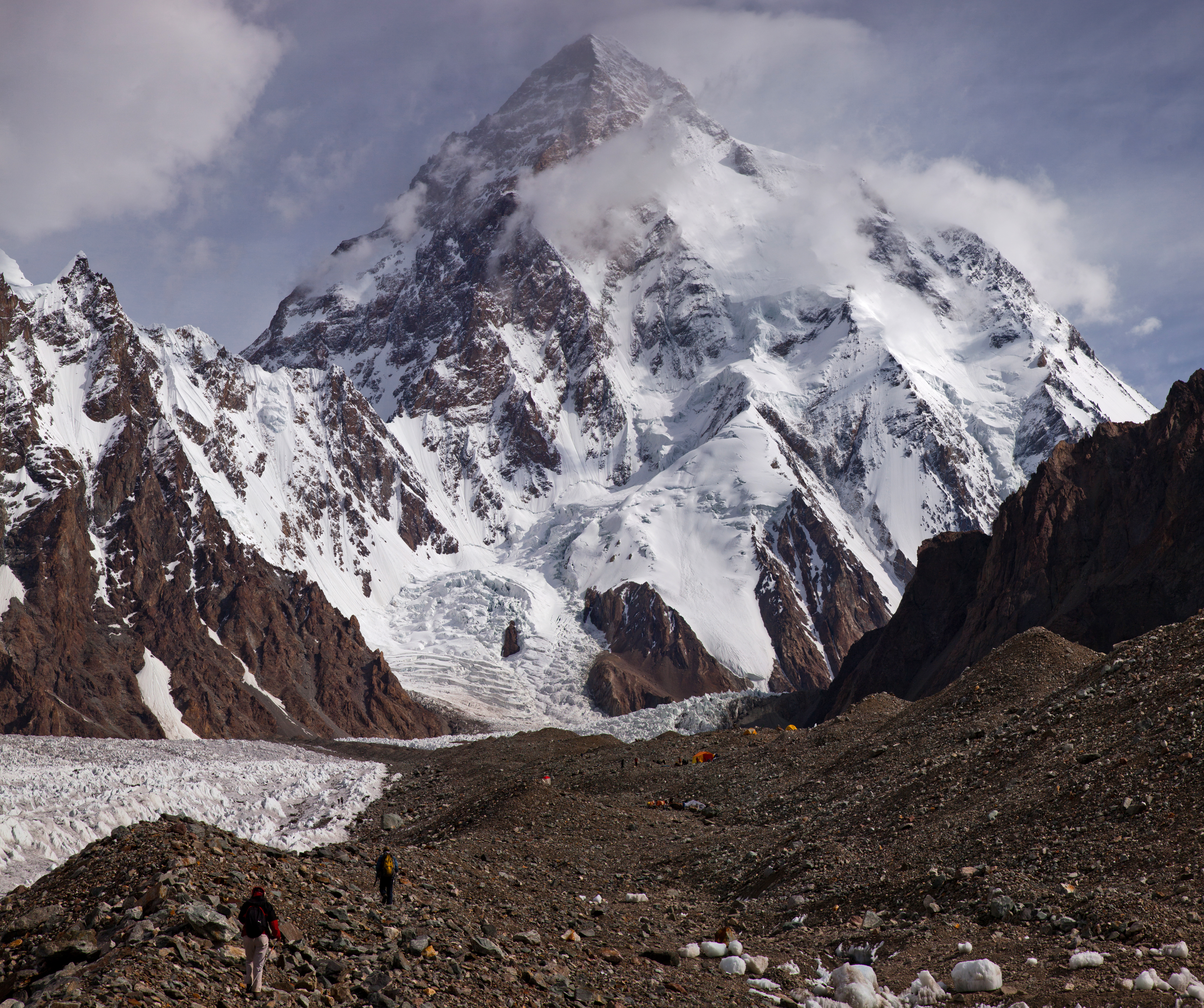 Northern Pakistan Central Karakoram Godwin Austen Glacier K2 Choghori Broad Peak Base Camp